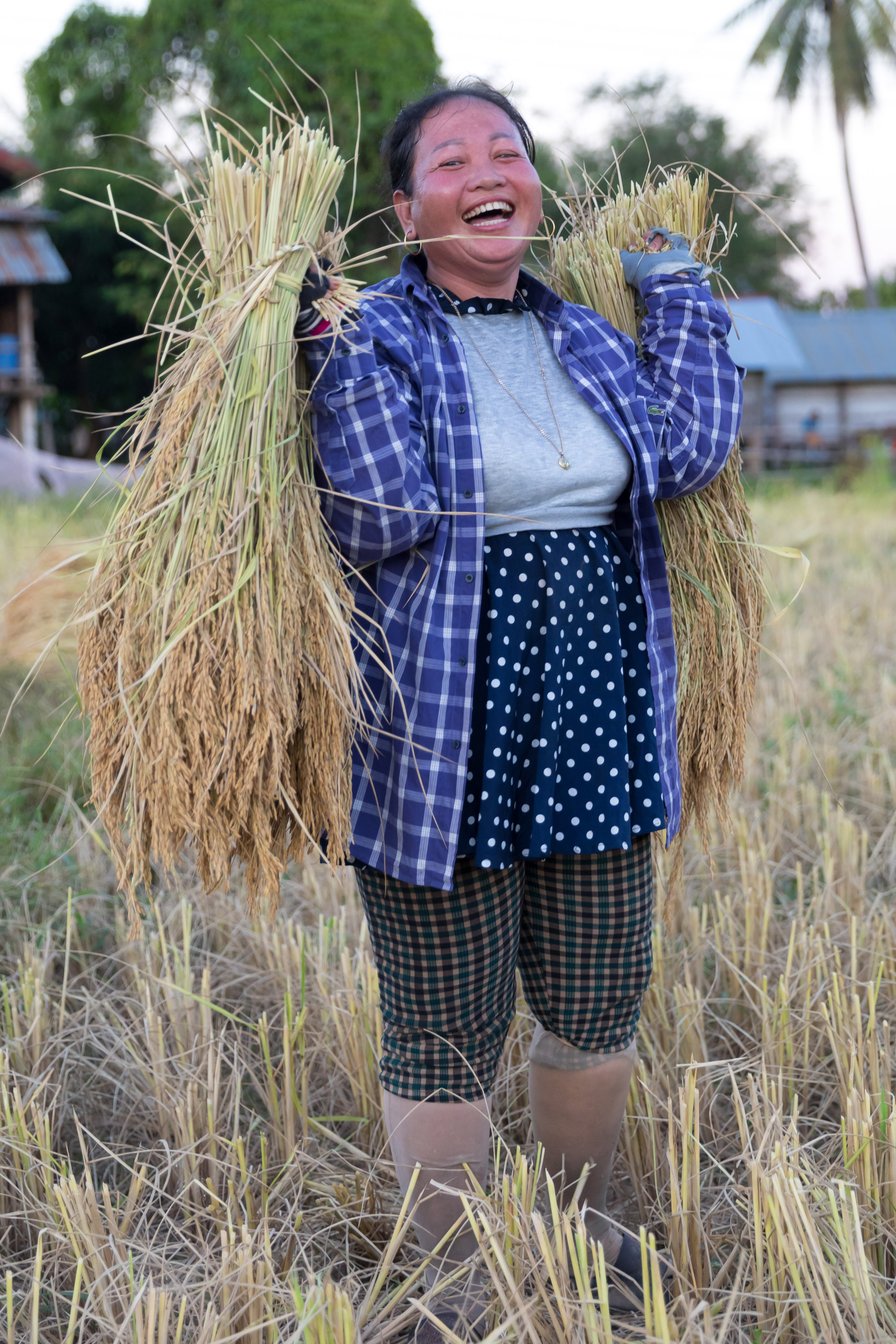 Female harvester laughing while carrying two heavy sheaves of rice, at the end of the day in Don Det, Si Phan Don, Laos